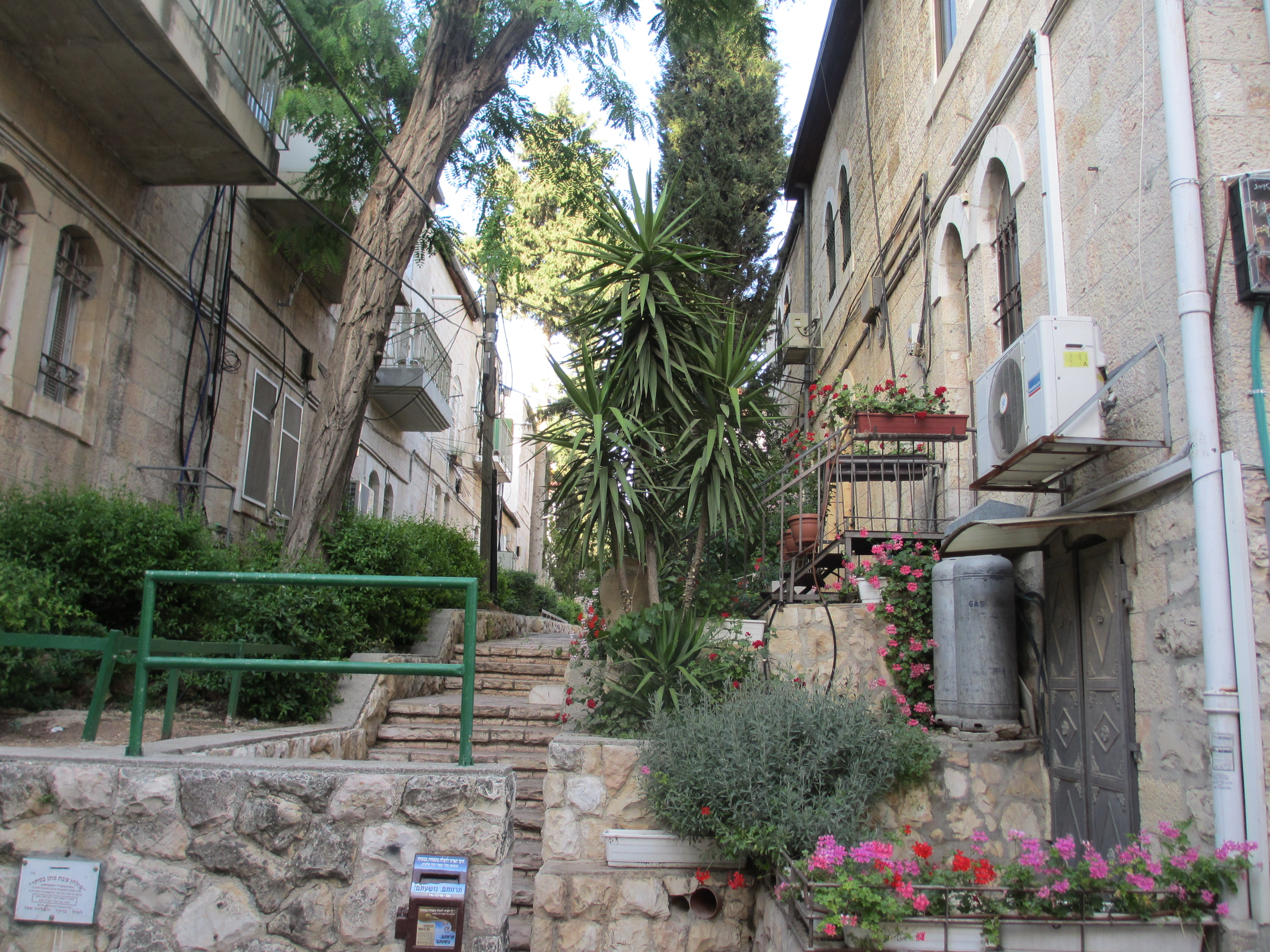 Shaarei Hesed - Jerusalem, Yesha'ayahu Bar Zakai street